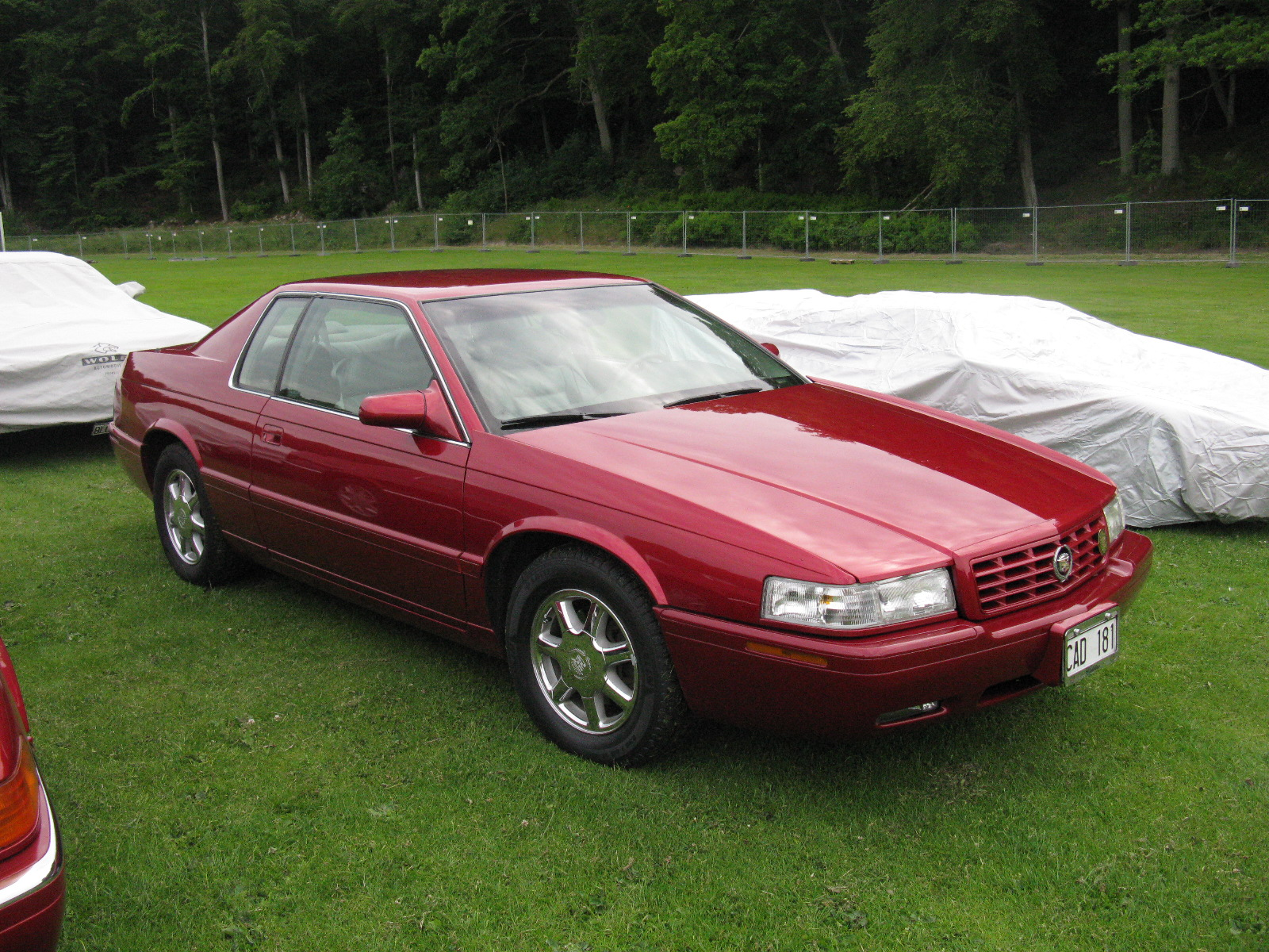 1999 Cadillac Eldorado; in Sweden since August 2008. VIN 1G6ET1298XU615366.